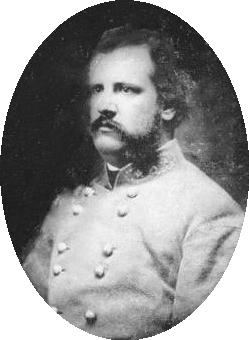 Got this from an article about General Gracie. Taken before 1864